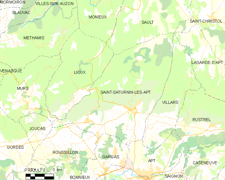 Map of French municipality Saint-Saturnin-lès-Apt